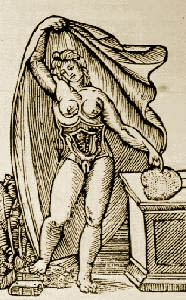 anatomical woodcut depicting a pregnant woman with opened uterus